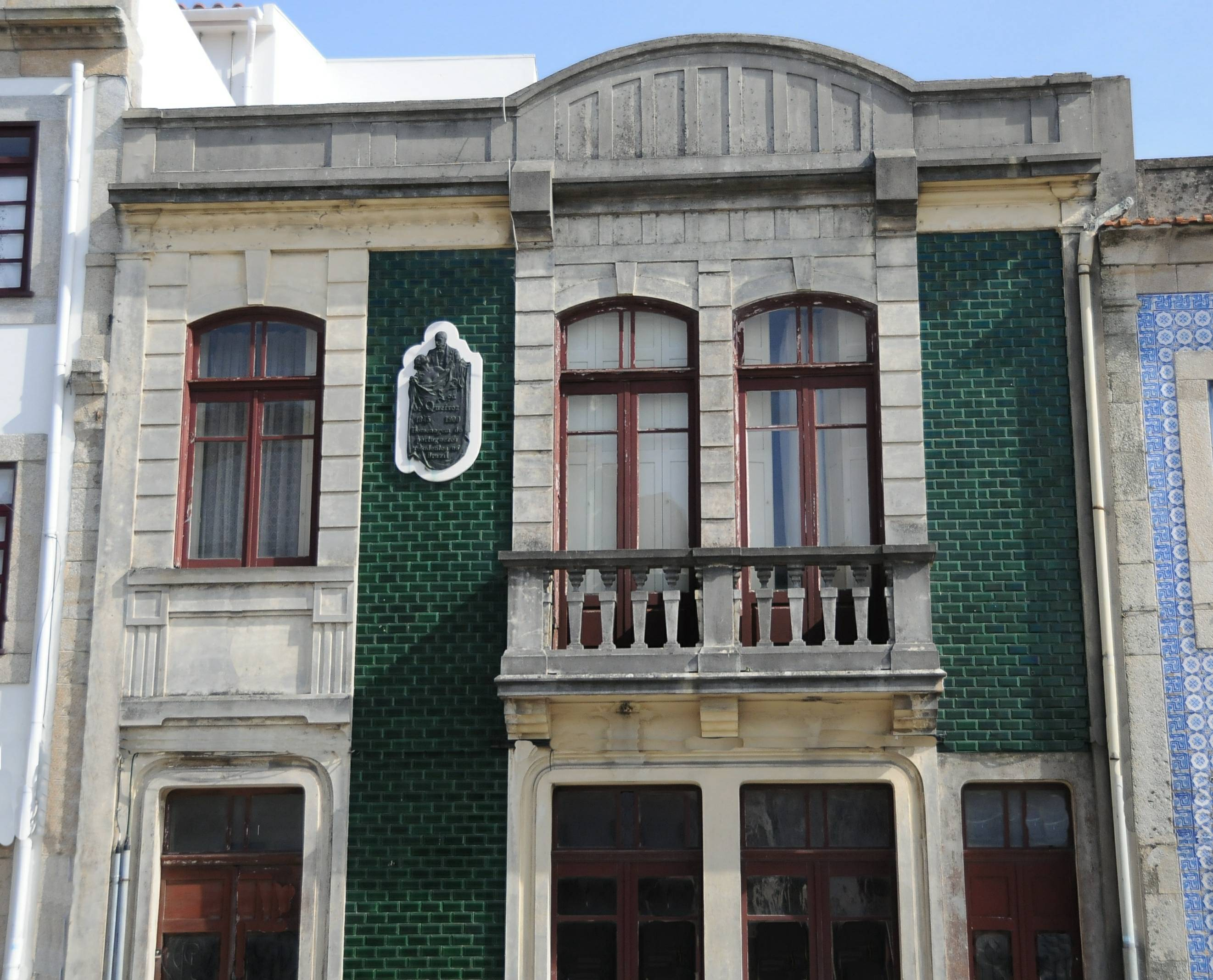 House of Eca de Queiros in Povoa de Varzim Portugal